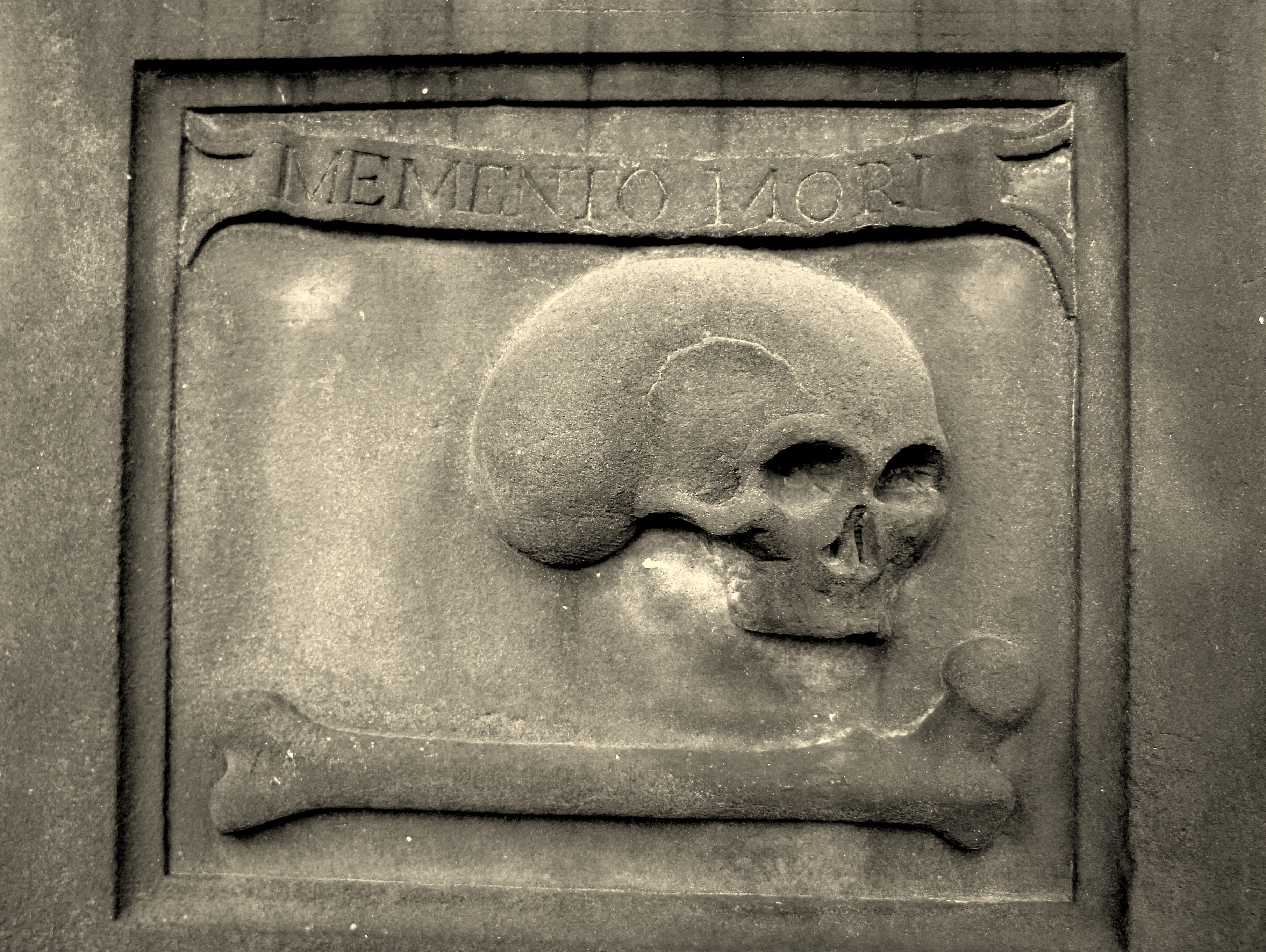 Edinburgh. St. Cuthbert's Churchyard. Grave of James Bailie (died 1746). Detail.